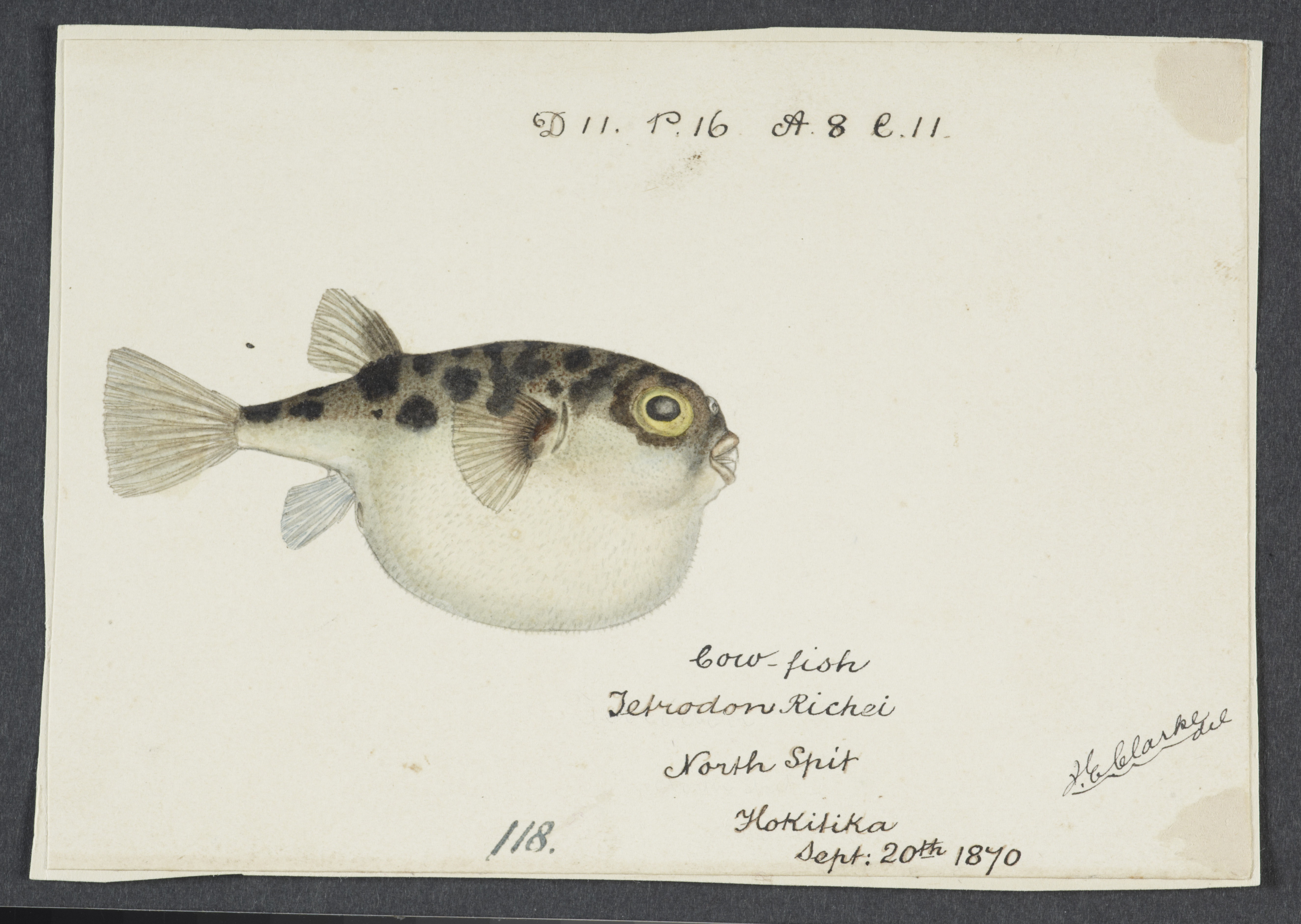 Tetraodon gillbanksii Clarke, 1870, by Frank Edward Clarke. Purchased 1921. Te Papa (1992-0035-2278/73) Tetrodon richei (=Contusus richei)